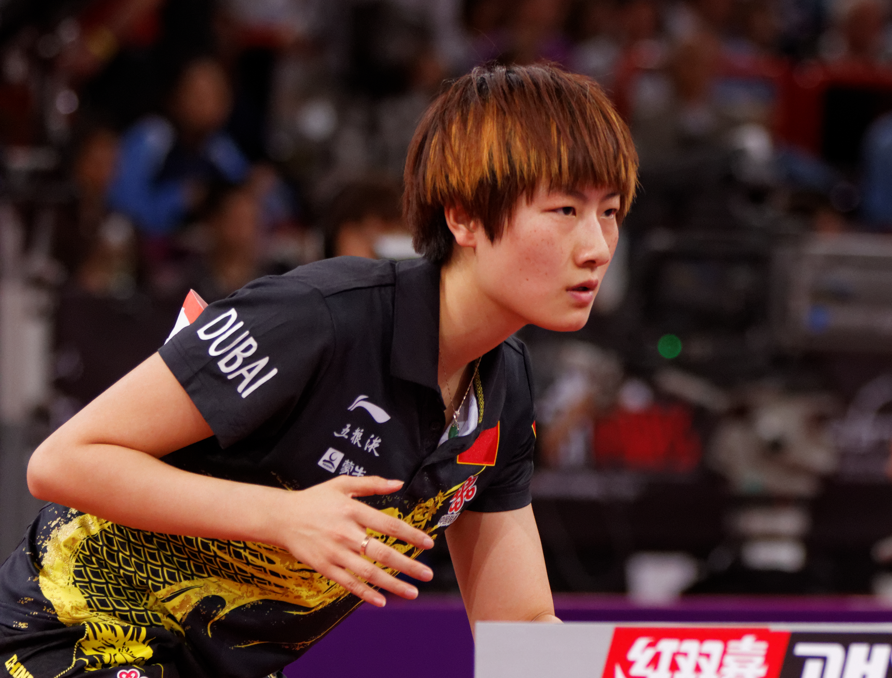 2013 World Table Tennis Championships, Paris. Women's Singles Quarterfinal. Ding Ning vs Ri Myong-Sun.